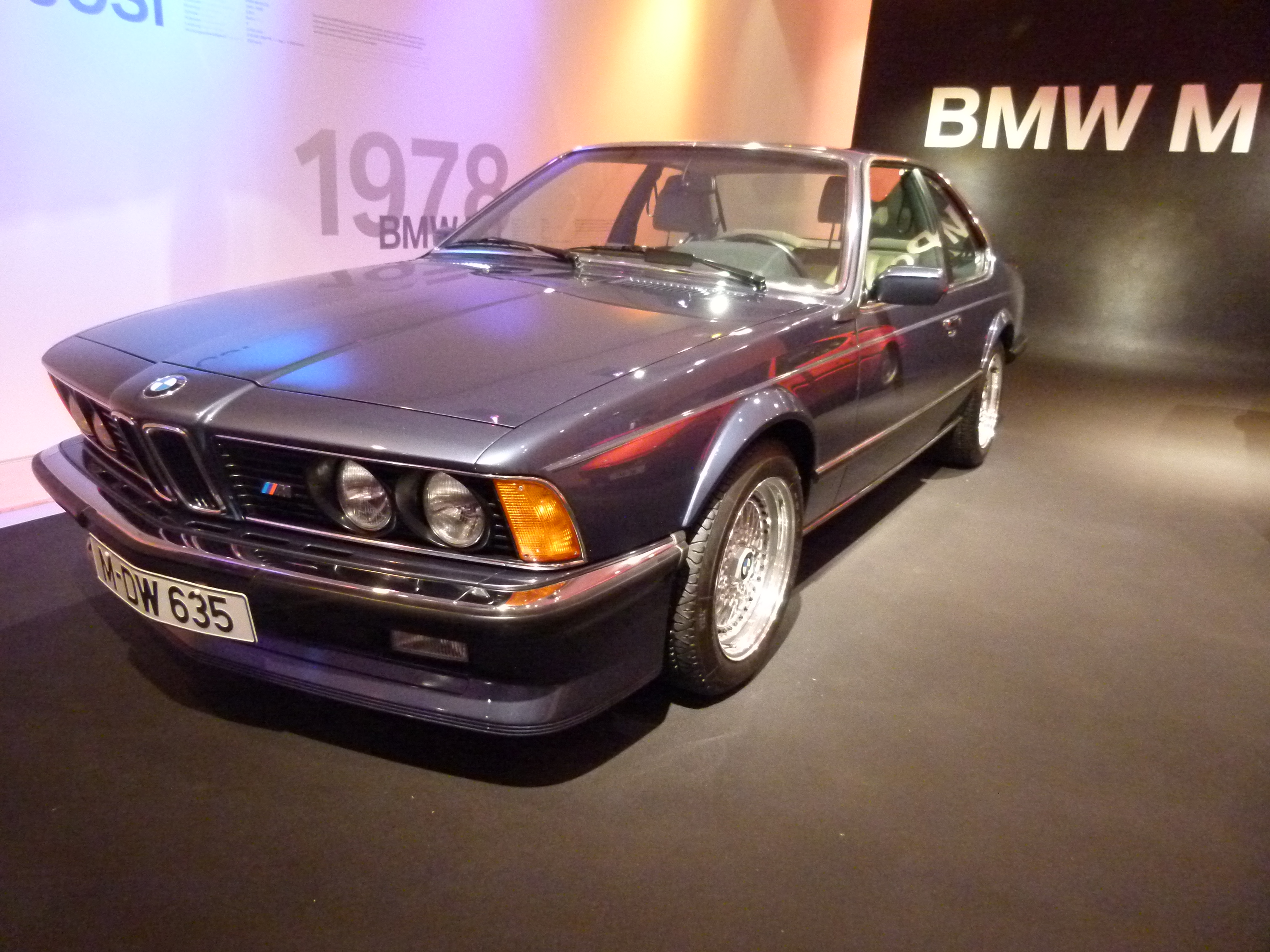 BMW M635CSi at BMW museum Munich